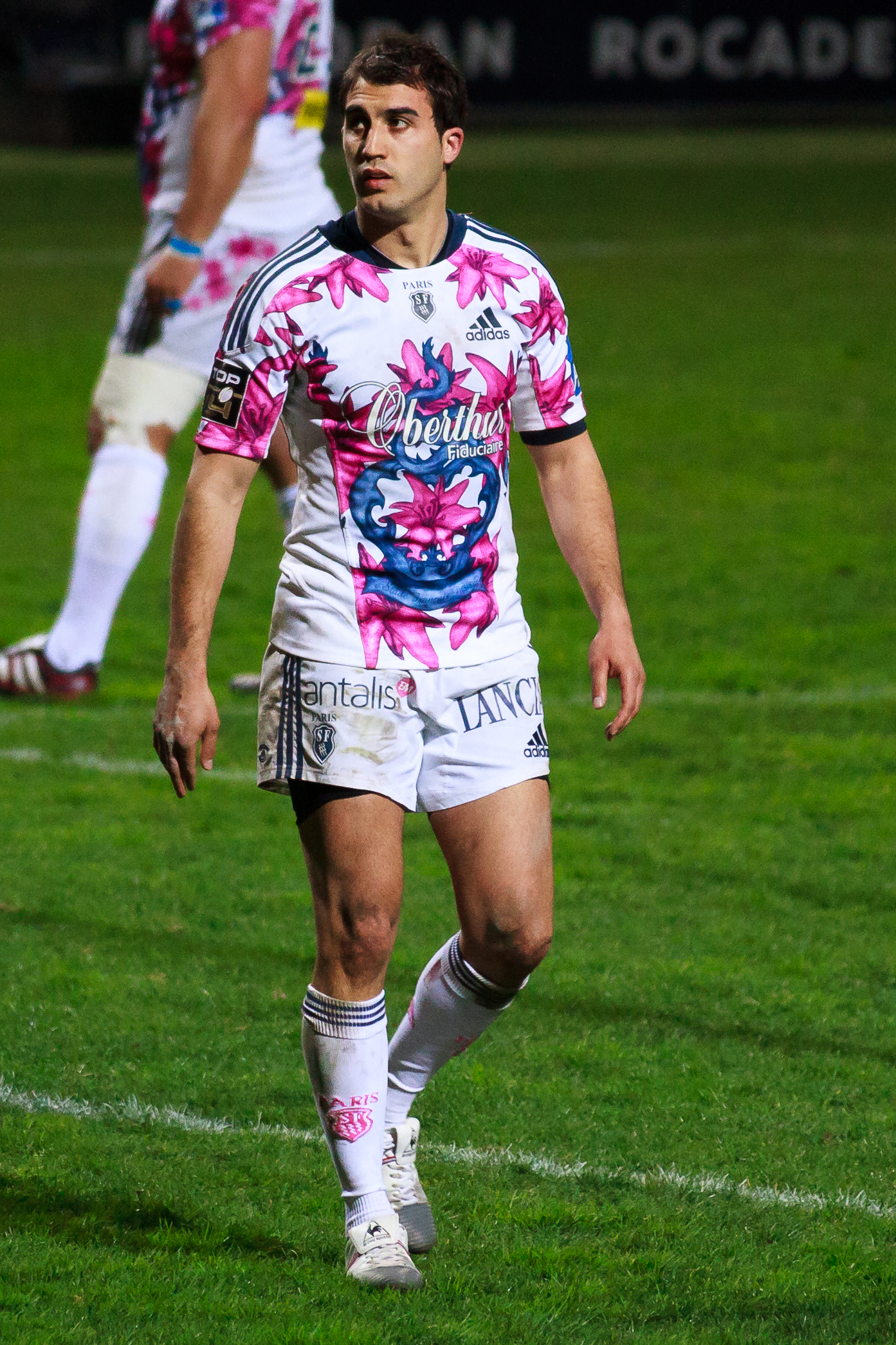 Jérome Porical, Stade toulousain vs Stade français Paris, March 24th, 2012